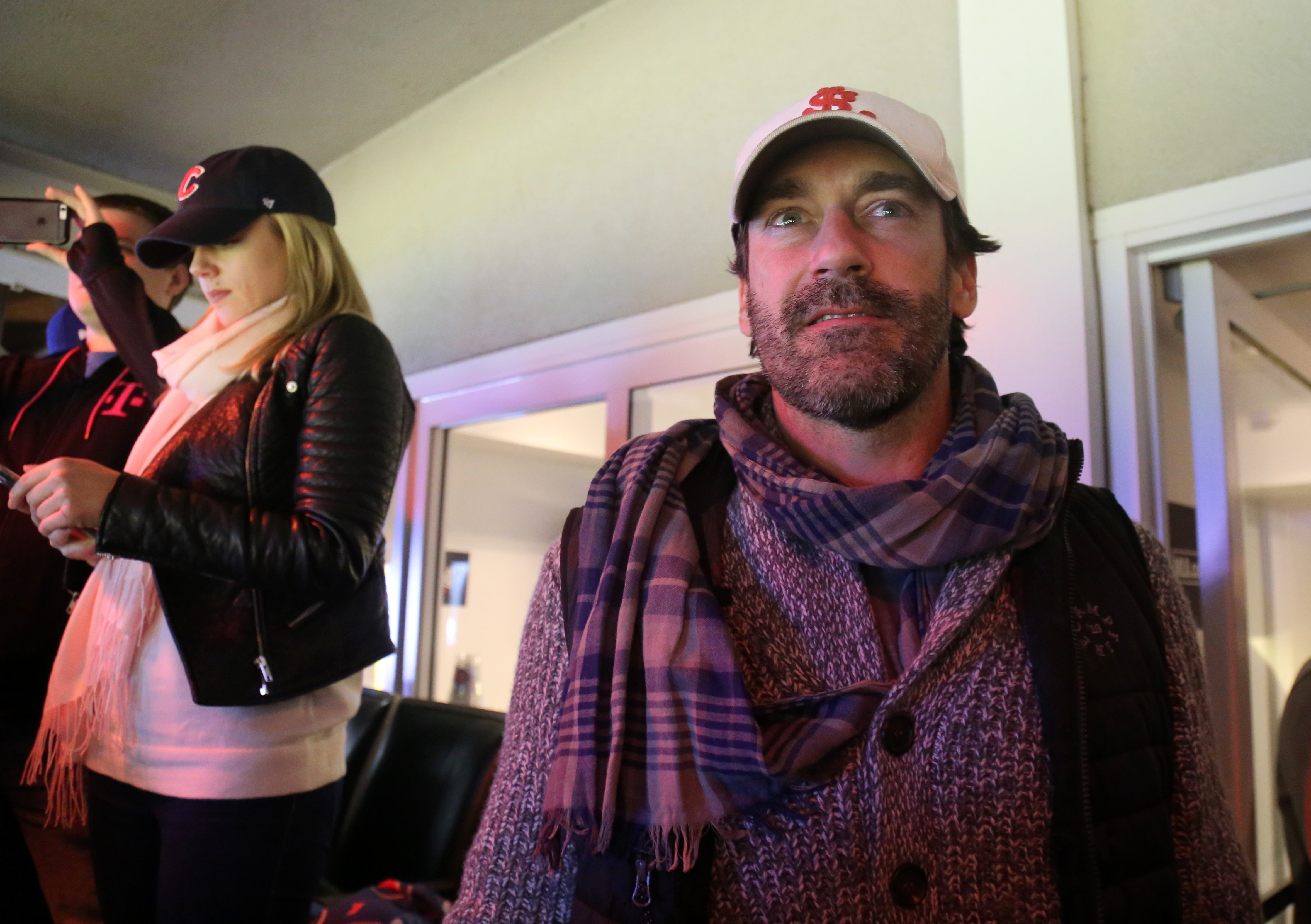 Photo of the Day Project, Oct. 30, 2016: Actor Jon Hamm watches Game 5 of the World Series at Wrigley Field.